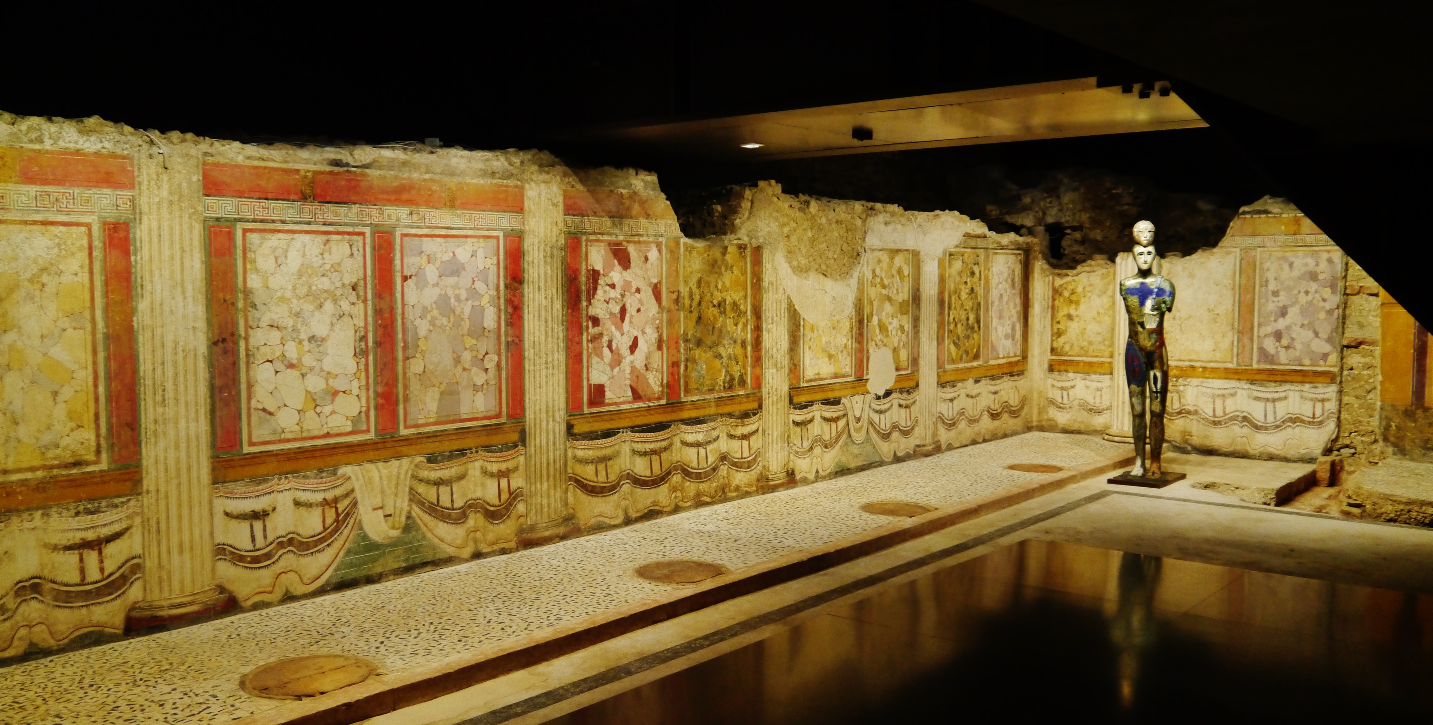 Quarta Cella at the Capitolium of the ancient City of Brixia, Brescia, Province of Brescia, Region of Lombardy, Italy